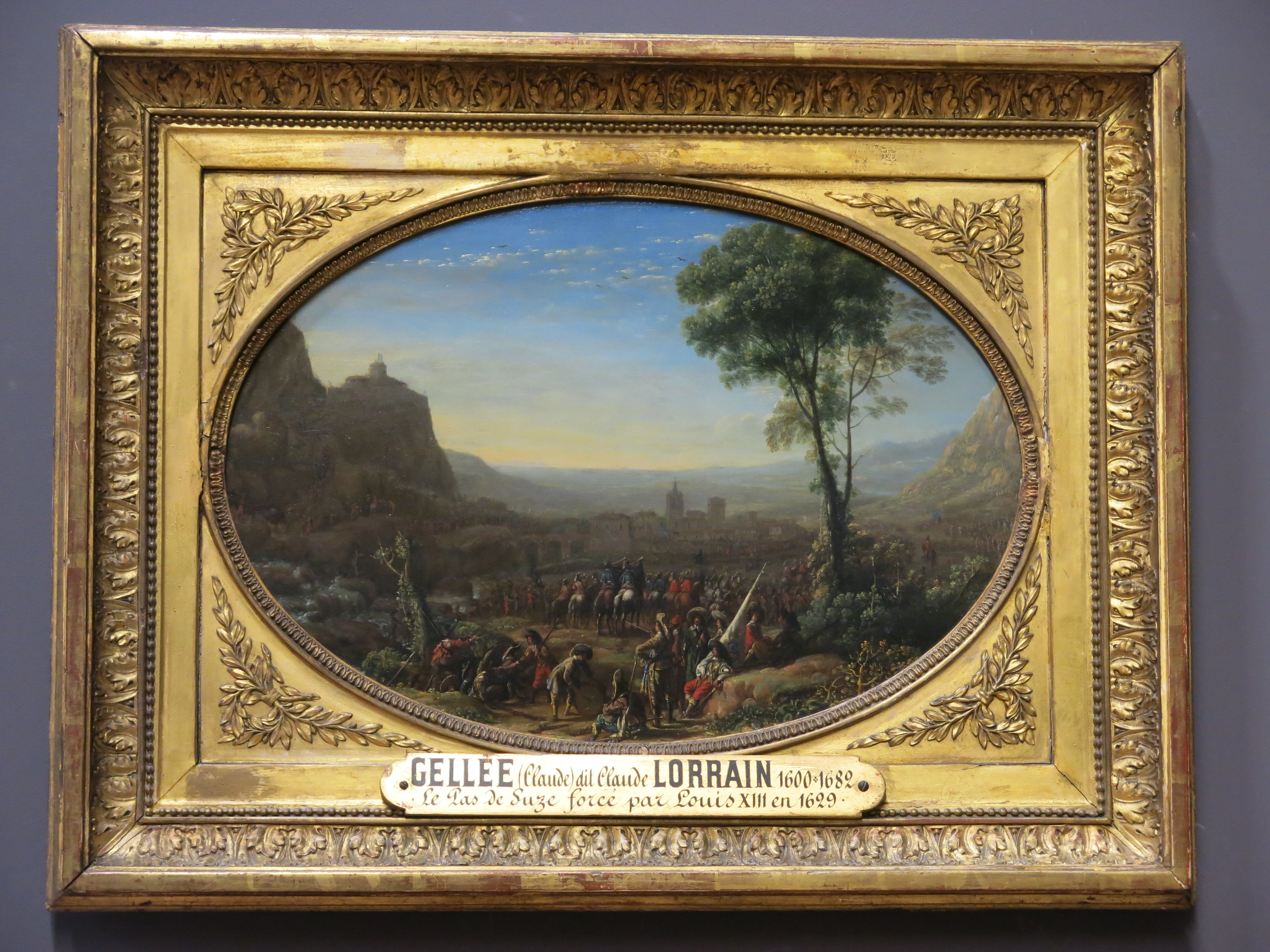 The Pas de Suse stormed by Louis XIII in 1629; Claude Gellée or Lorrain (1647). Oil on canvas. Collection of the French king Louis XVIII (purchase 1671). Louvre museum (Paris, France).